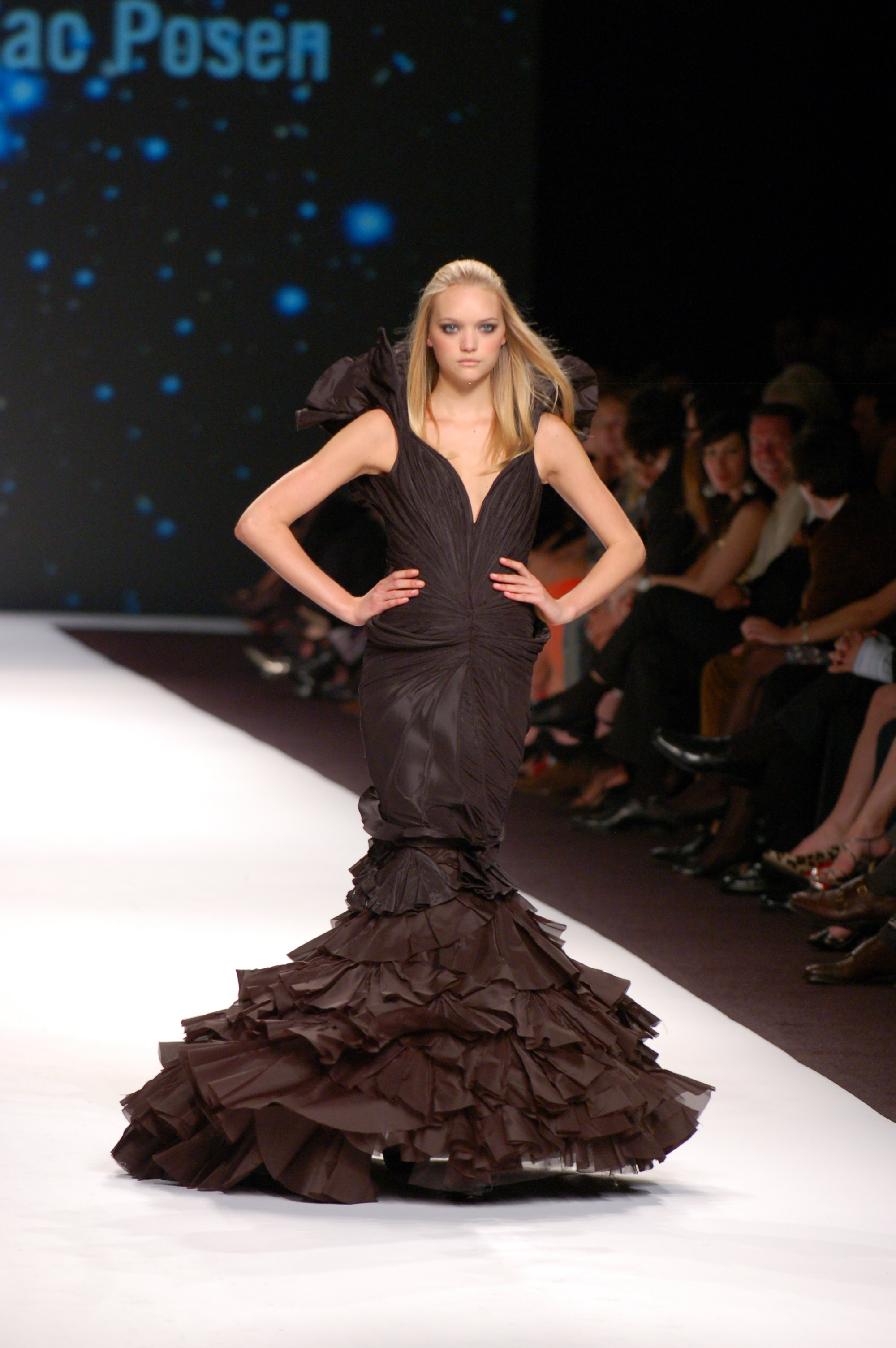 Gemma Ward at FashionWeekLive in San Francisco, March 15, 2007 Photo by Jesse Gross